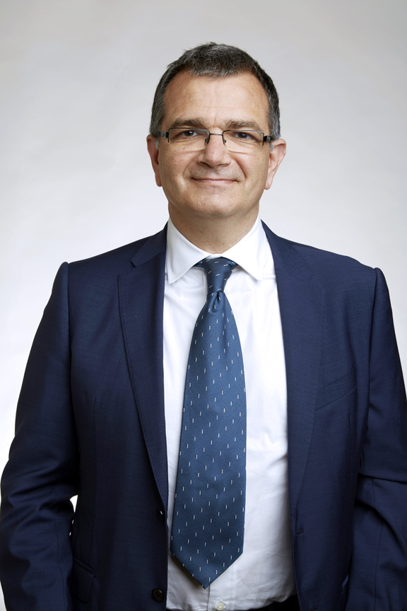 Vincenzo Cerundolo is the Director of the Medical Research Council (MRC) Human Immunology Unit at the University of Oxford, at the John Radcliffe Hospital and a Professor of Immunology at the University of Oxford. He is also a Supernumerary Fellow at Merton College, Oxford Attribution: The Royal Society